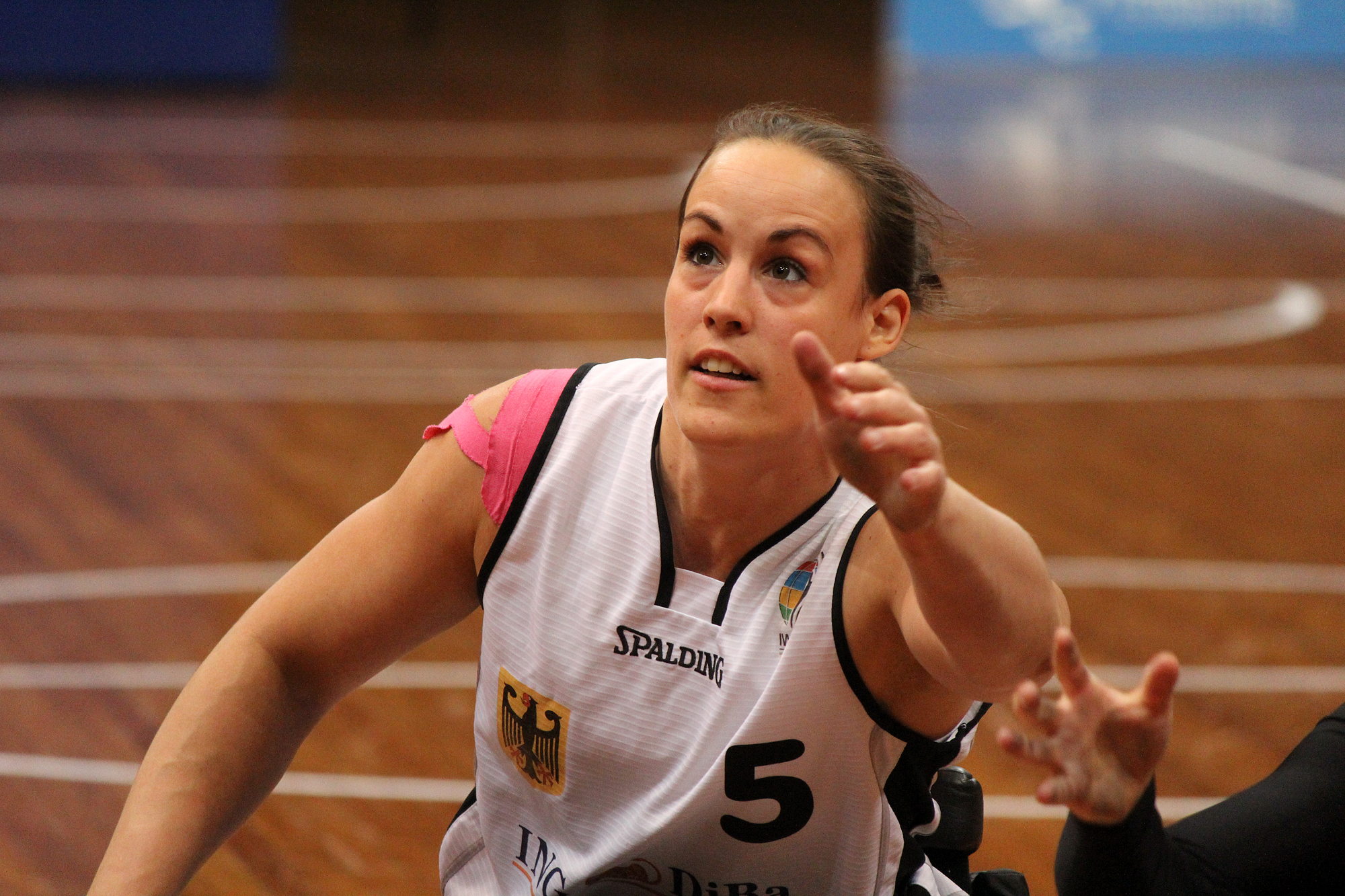 Germany vs Japan women's wheelchair basketball team at the Sports Centre.